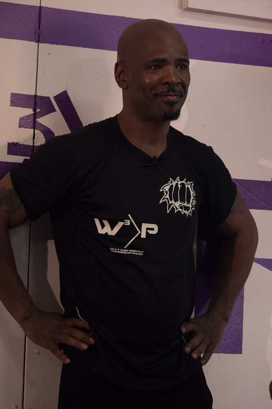 Current picture of Willy Wise, retired professional boxer for placement in article highlighting about his boxing career.